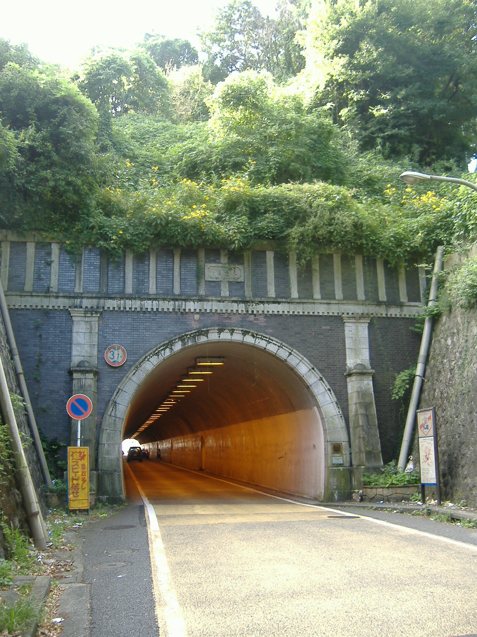 Azuma Tunnel(Yokohama, Japan)